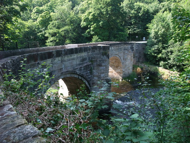 Pont Cysylltau over the River Dee 'Pont' or 'Bridge'?, 'Cysylltau' or 'Cysyllte'? Whatever the agreed name, the ability of walkers on Offa's Dyke Path to share this narrow 300 year old bridge with road traffic is only made possible by the pedestrian refuges on the piers.